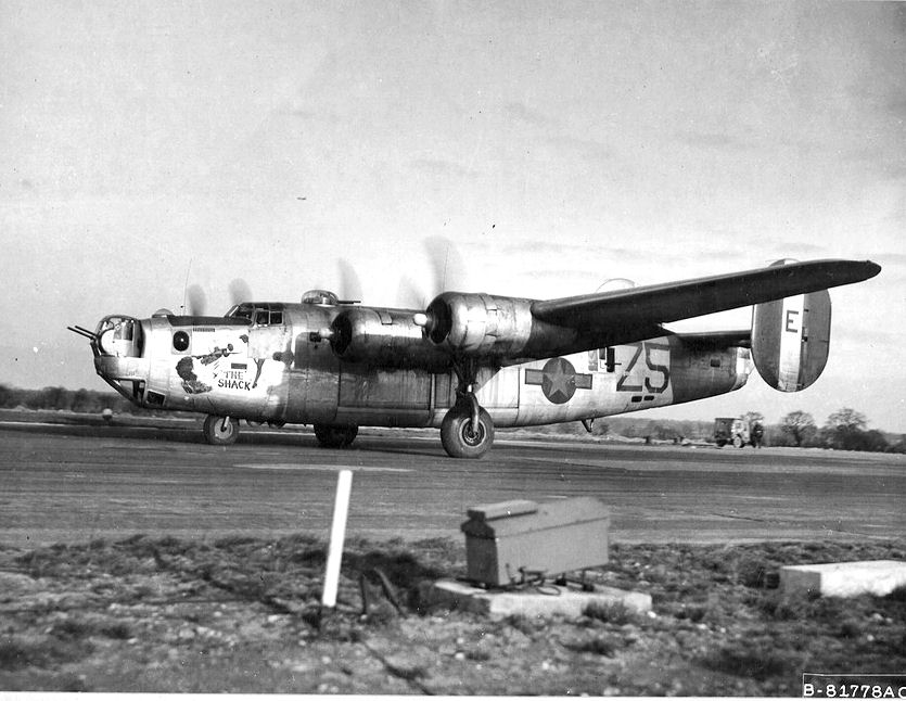 "The Shack" nose art on B-24J-155-CO Liberator s/n 44-40298 of the 754th Bomb Squadron, 458th Bomb Group, 8th Air Force